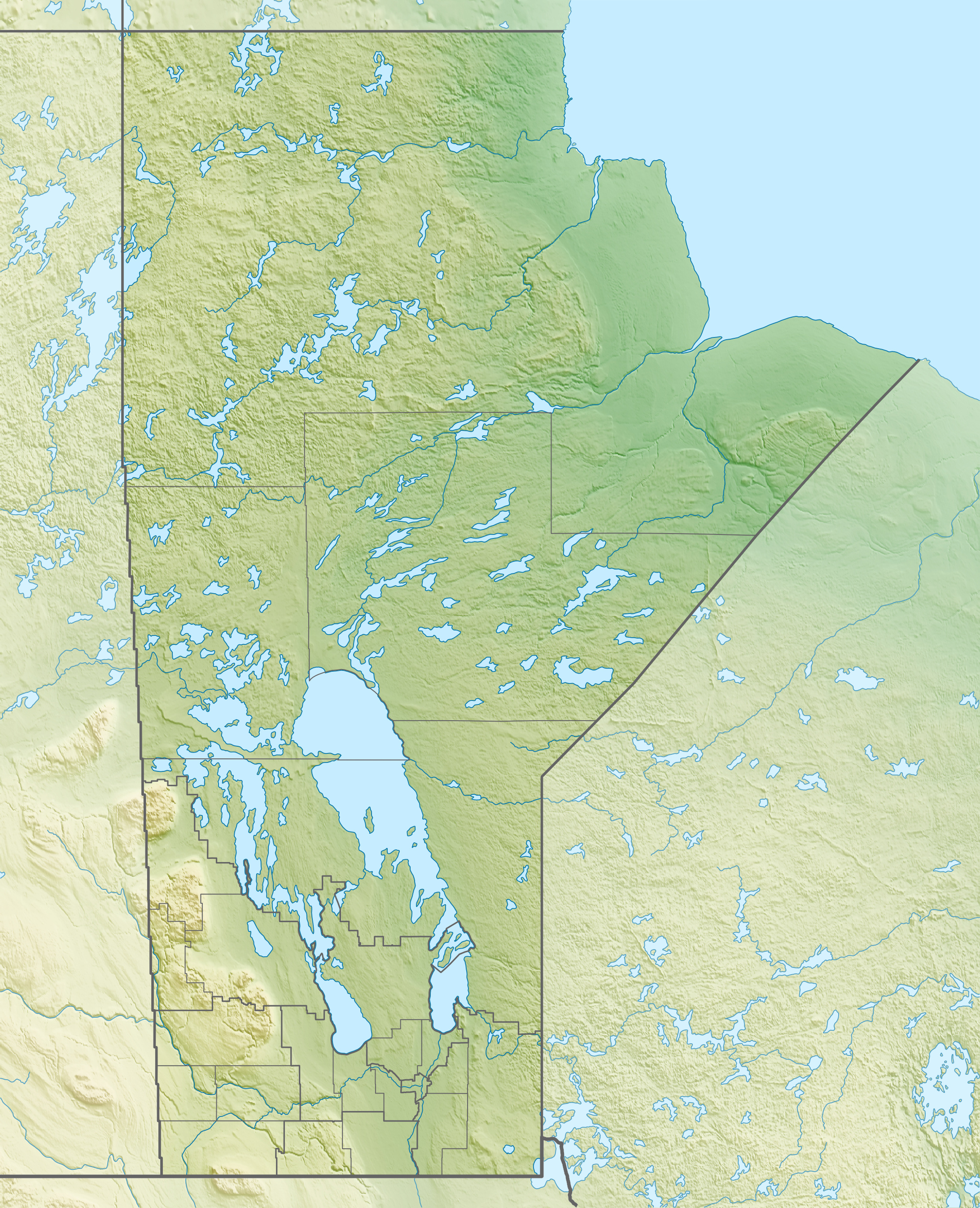 Physical location map of Manitoba, Canada Equirectangular projection, N/S stretching 170 %. Geographic limits of the map: N: 60.3° N S: 48.7° N W: 104.0° W E: 88.0° W